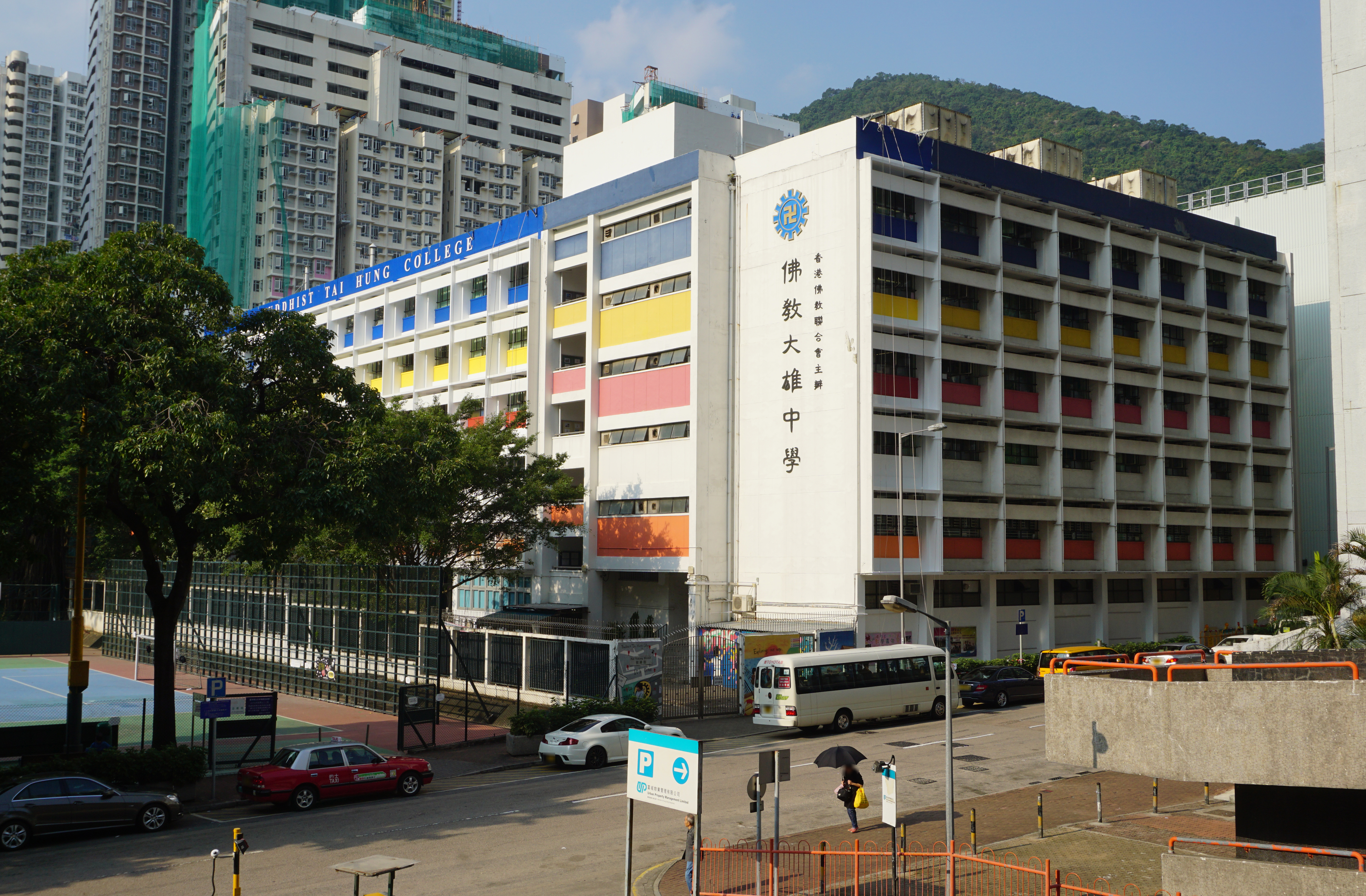 Buddhist Tai Hung College in Cheung Sha Wan, Hong Kong.